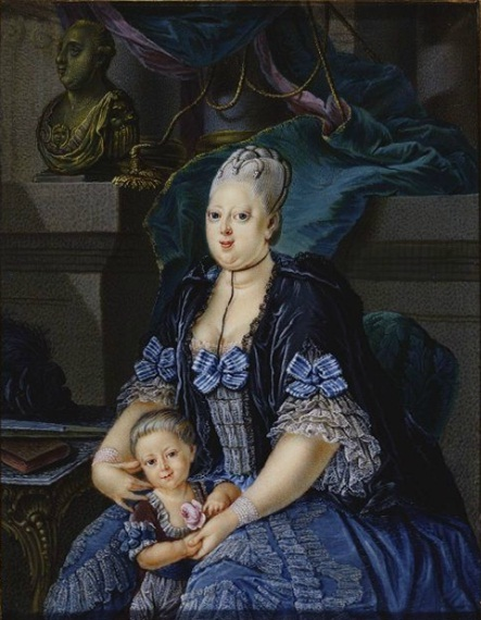 Portrait Queen Caroline Mathilde of Denmark